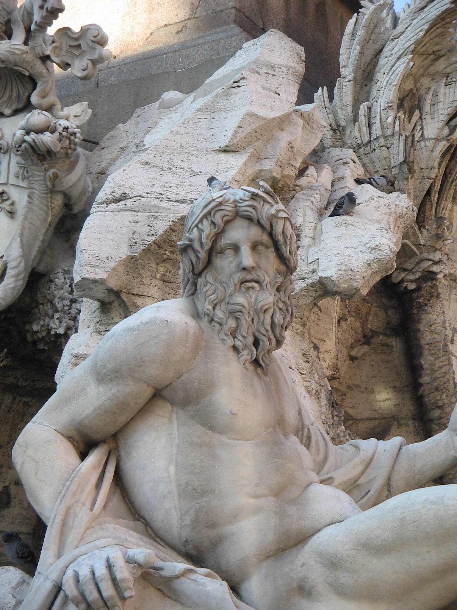 The river-god Ganges by Gianlorenzo Bernini (1651), from the Fontana dei Quattro Fiumi in Rome. Picture by Carlo Morino, 16/X/2005.